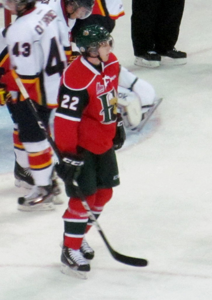 Nathan MacKinnon (#22) of the Halifax Mooseheads during a QMJHL game against the Acadie-Bathurst Titan